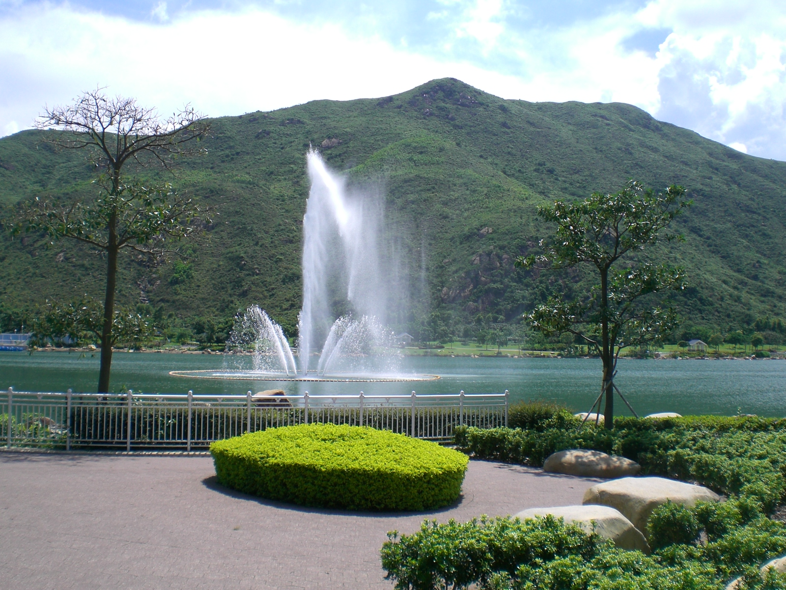 Inspiration Lake at Hong Kong Disneyland Resort. For more information, see Wikipedia article Inspiration Lake.